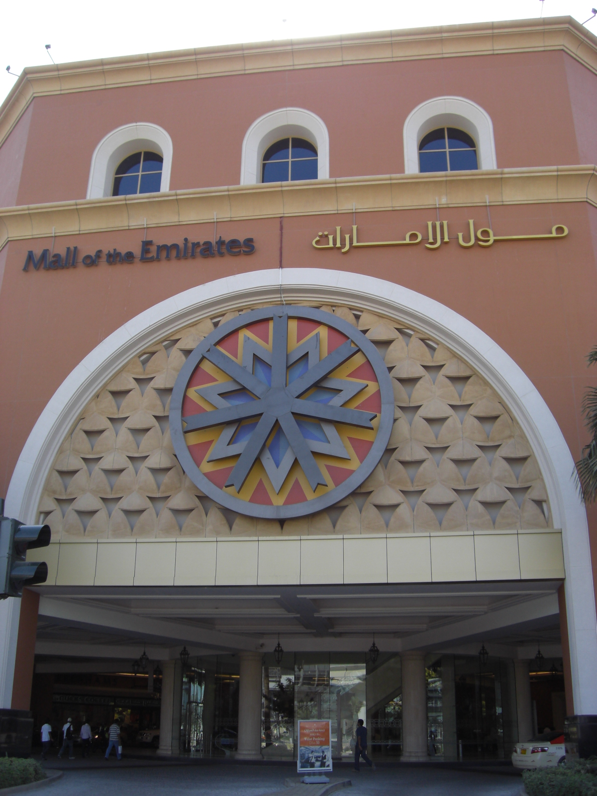 Mall of the Emirates, Dubai, United Arab Emirates